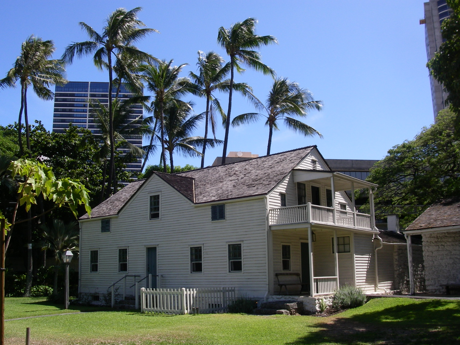 This is the easternmost (most Diamond-Head-side) of three houses in the Mission Houses museum in Honolulu, Hawaii.